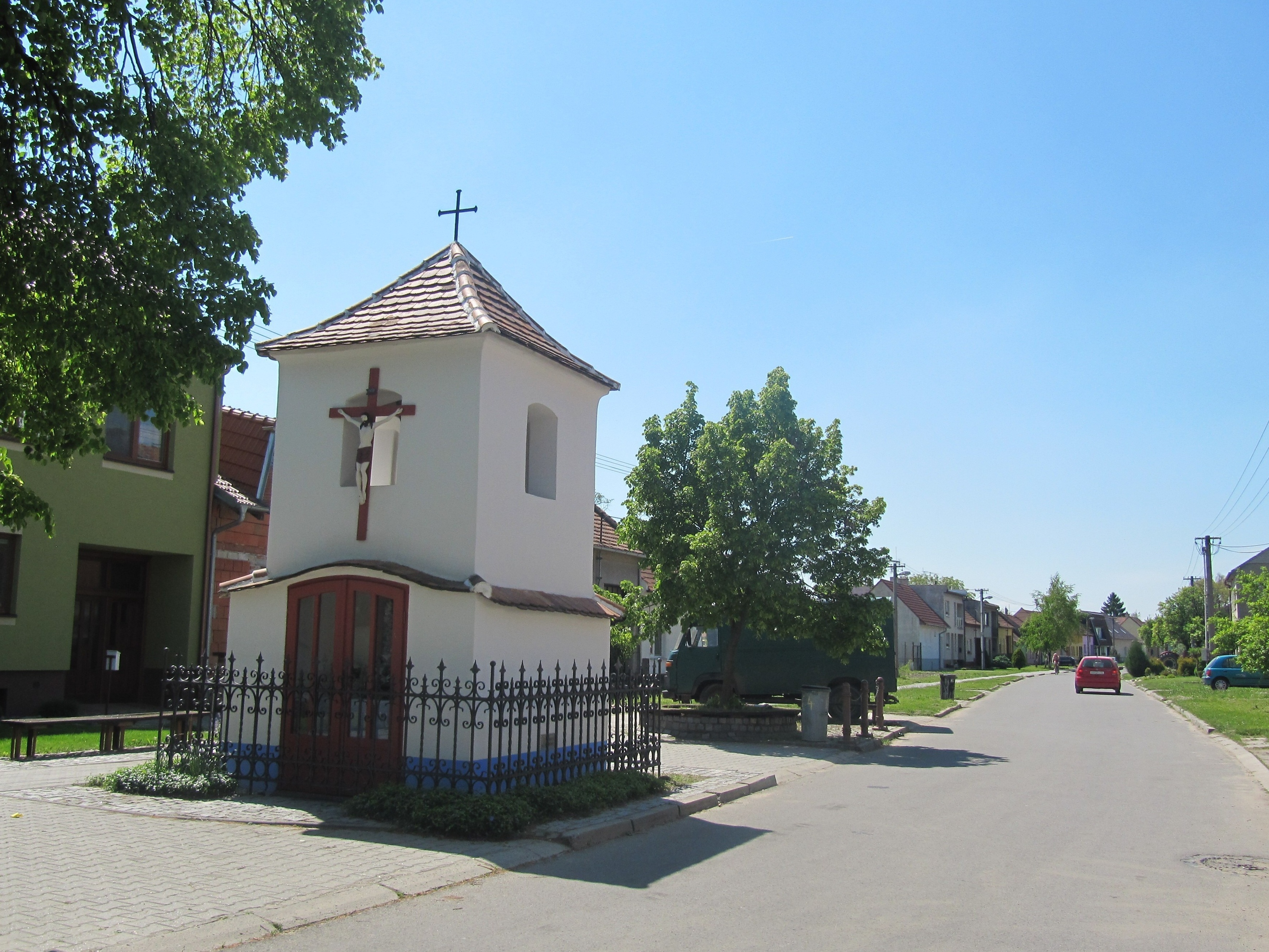 Veselí nad Moravou, Hodonín District, Czechia, part Milokošť.